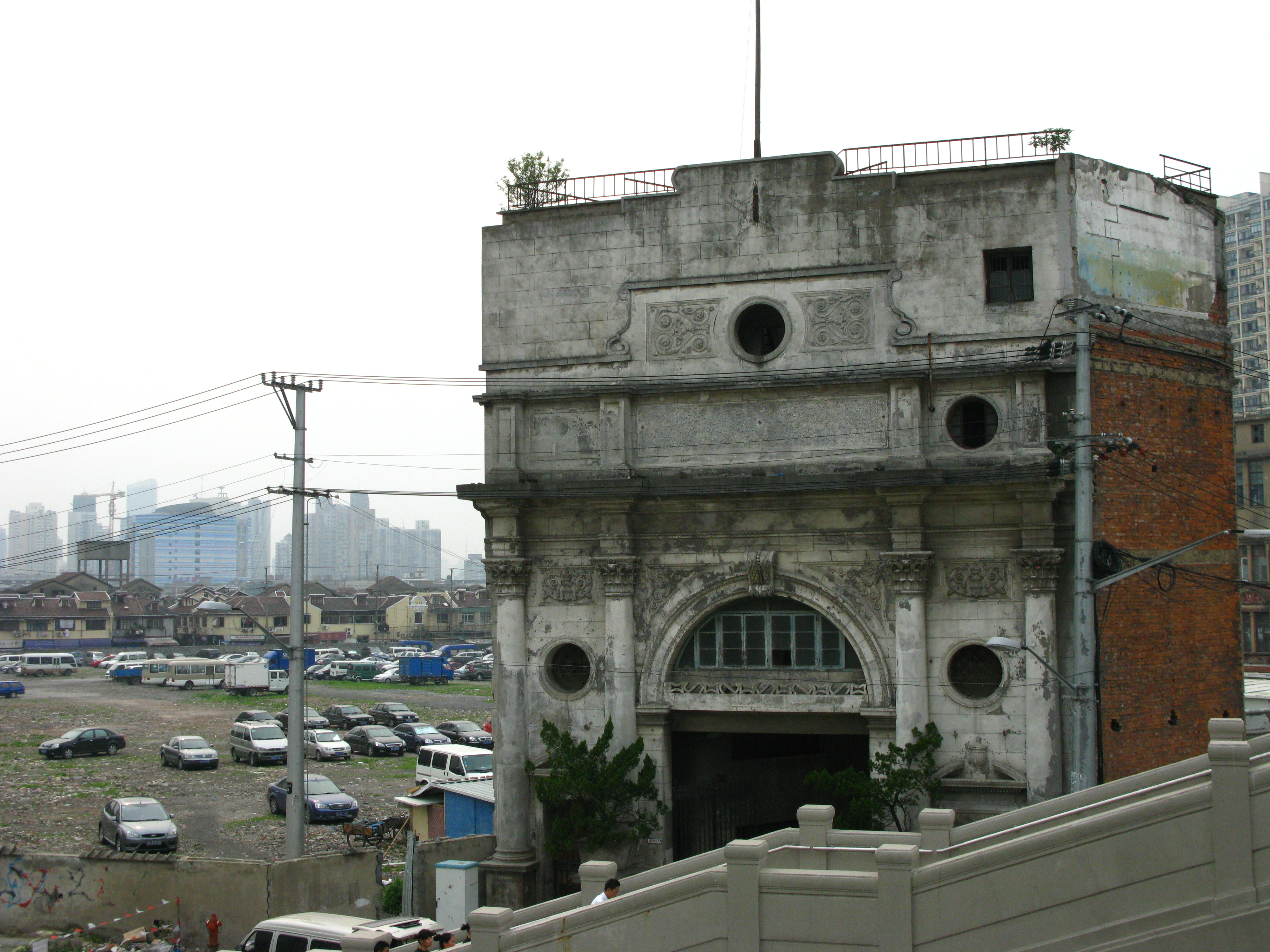 Old things disappear to make place for new. Memories last longer, but will vanish, too.